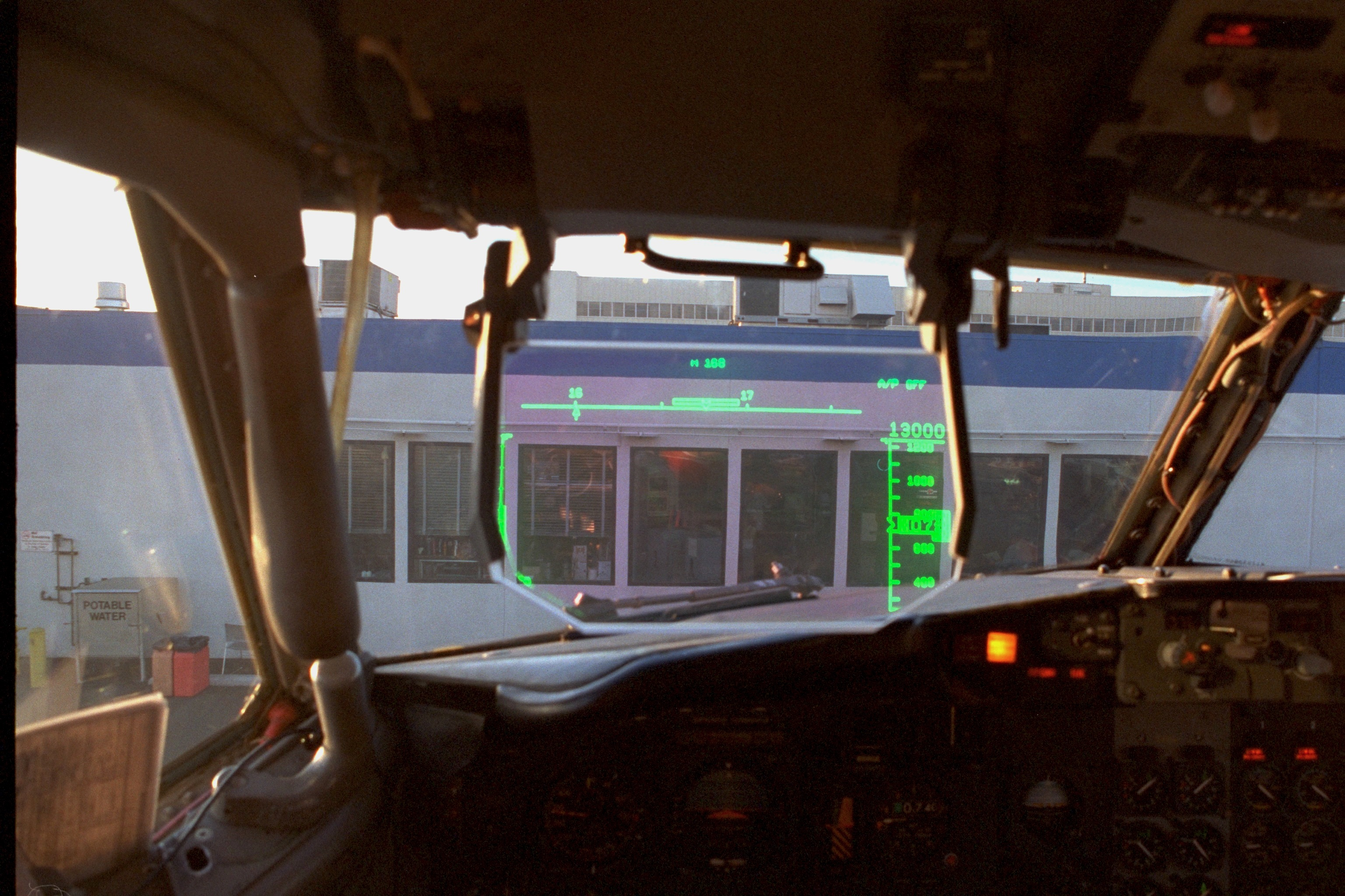 And you can make out all the steam gauges on the instrument panel... because Southwest bought retro cockpits for its 737-300s, so the same pilots could fly -200 or -300, whatever was available. A real glass cockpit was invented for the -400 and available as an option for the -300 and -500... Ok, but its not as simple as worshiping sunk training costs. SWA determined its pilots could do a better job, not just different, better, if they had Heads Up Display screens in front of the pilot, so here it is. Better situational awareness for sure, possibly better results in marginal weather. 98-3-9